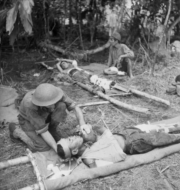 Japanese wounded during the Battle of Buna-Gona receive medical attention from Australian personnel